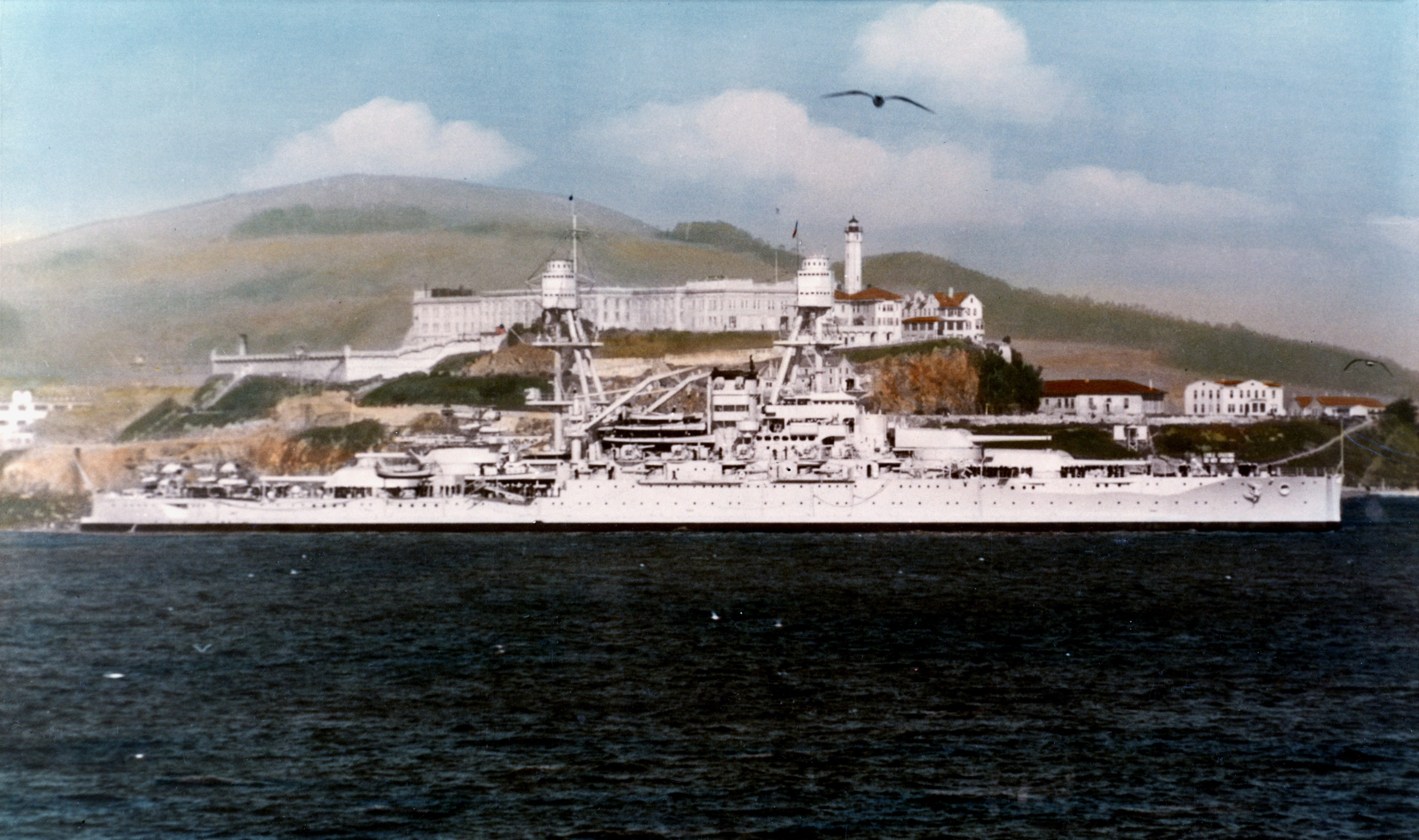 The U.S. Navy battleship USS Oklahoma (BB-37) passing Alcatraz prison, San Francisco Bay, California (USA), during the 1930s.